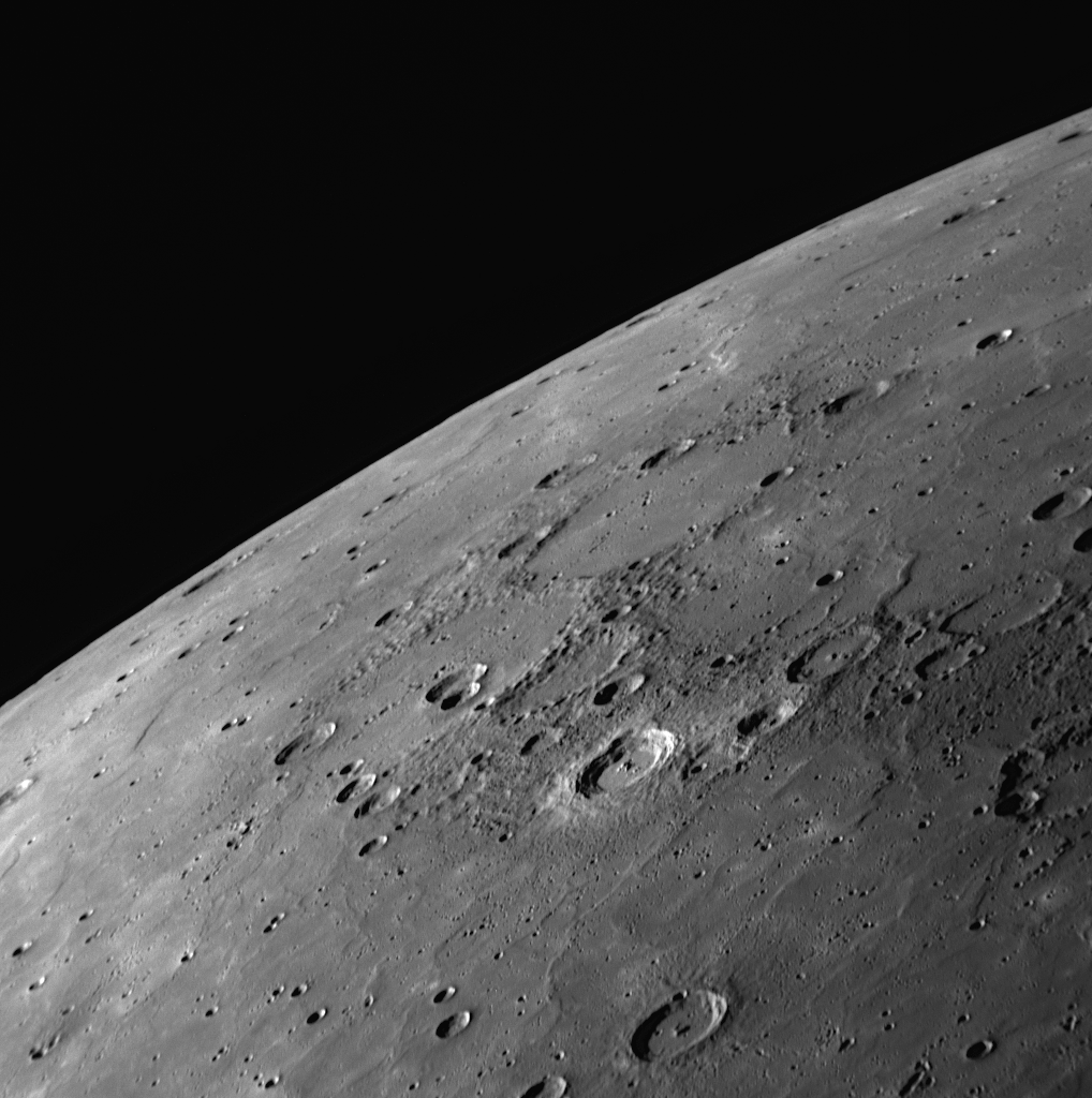 "This NAC image is of an area just to the north of a previously released image acquired during MESSENGER's third flyby of Mercury. Both that previously released image and this one show large areas of Mercury's surface that appear to have been flooded by lava. In this view, craters are visible that have been nearly filled with lava, leaving only traces of their circular rims. MESSENGER images have revealed that the smooth plains in this region of Mercury's surface are quite extensive, and MESSENGER Science Team members are currently updating maps of the smooth plains created after the mission's second Mercury flyby to include these new views obtained from Mercury flyby 3. After the Mariner 10 mission, there was some controversy concerning the extent to which volcanism had modified Mercury's surface. Now MESSENGER results, including color composite images, evidence for pyroclastic eruptions, and images of vast lava plains (such as shown here) have demonstrated that Mercury was indeed volcanically active in the past."Almost all features in this photograph remain unnamed as of 28 January 2020, but the region is named Borealis Planitia. The photo is centered at about 50° N, 300° W.